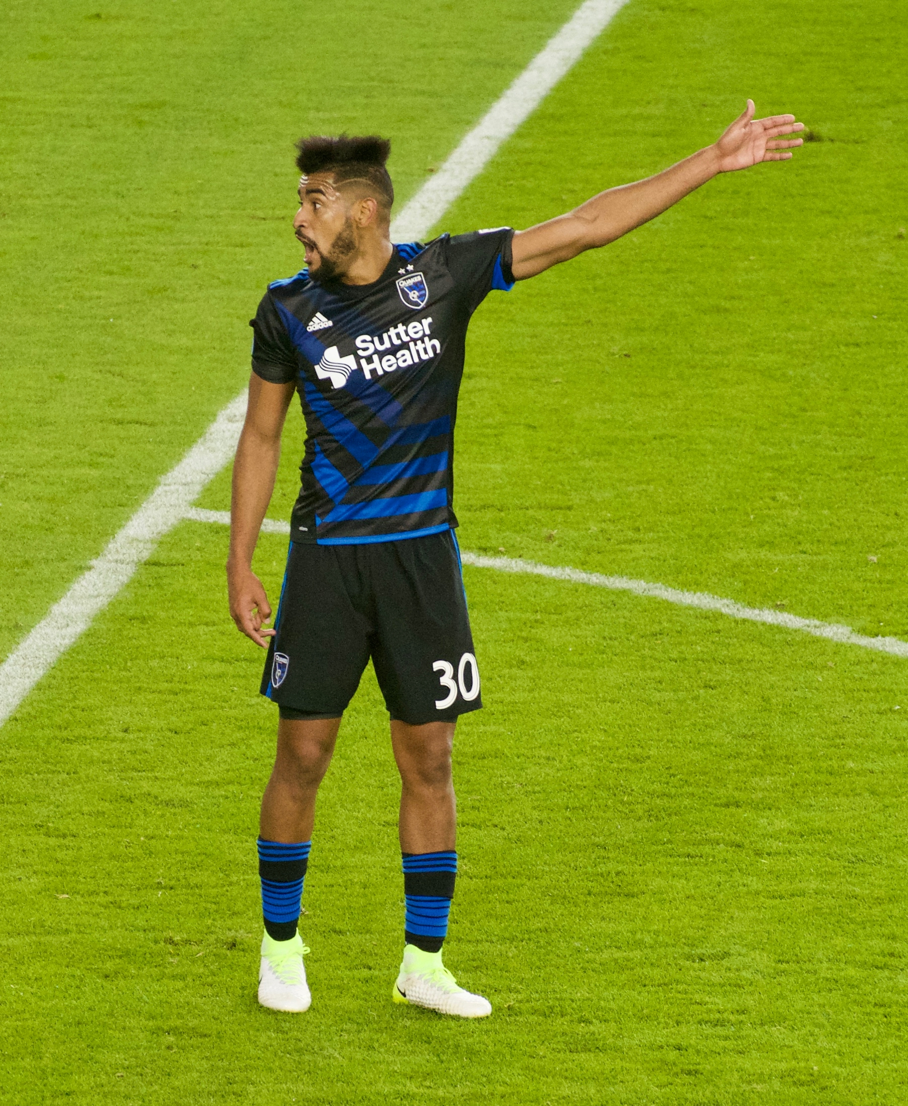 Aníbal Godoy playing for San Jose Earthquakes at Avaya Stadium on 8 April 2017.